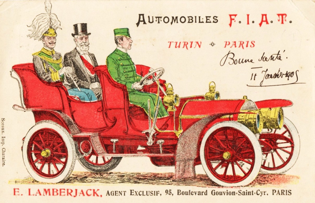 Fiat is an Italian make, but this postcard was mailed by their agent in Paris in 1905. Advertising postcard.